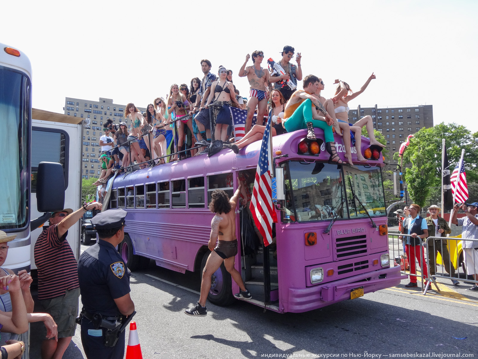 Coney Island Mermaid Parade 2014.